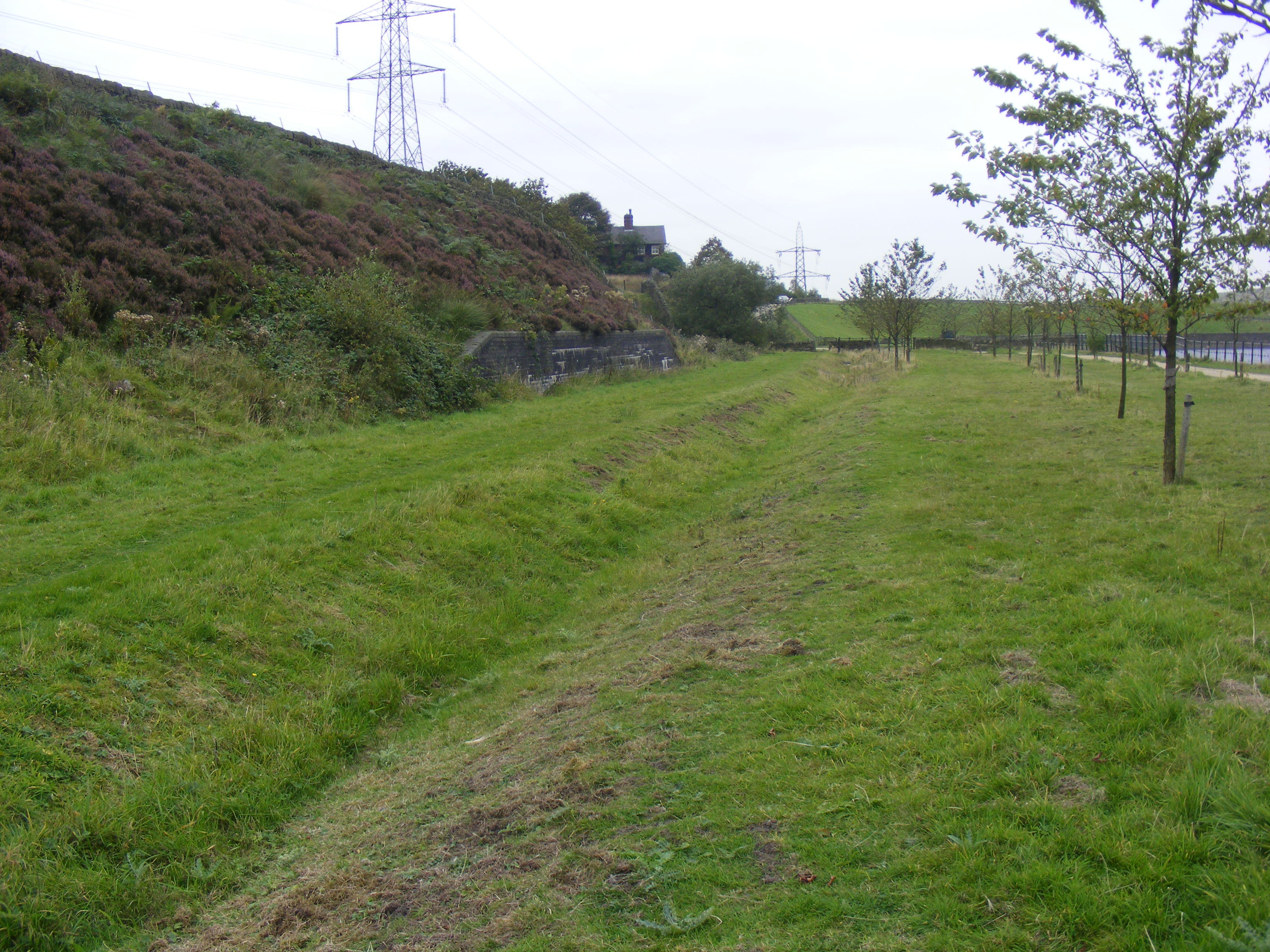 The site of Crowden railway station near Woodhead, Derbyshire, England in September 2009. There is currently no public transport of any kind to the area.